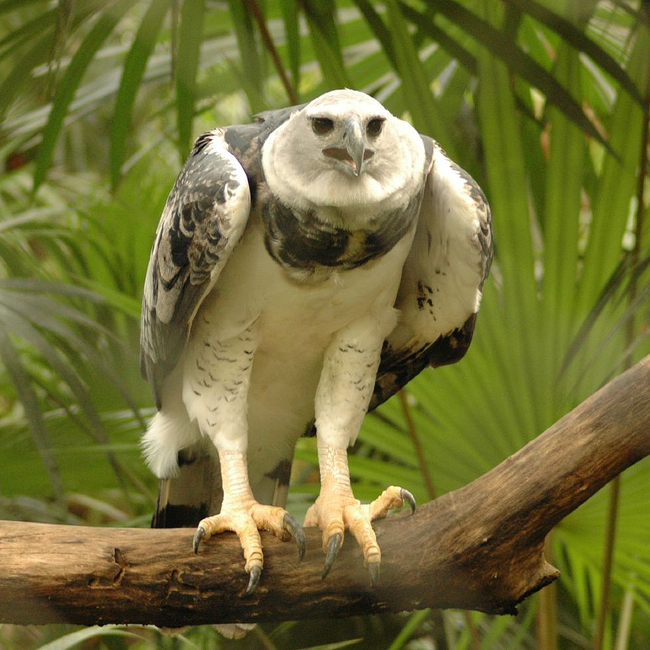 A sub-adult American Harpy Eagle, often called the Harpy Eagle, in Belize Zoo, Belize.